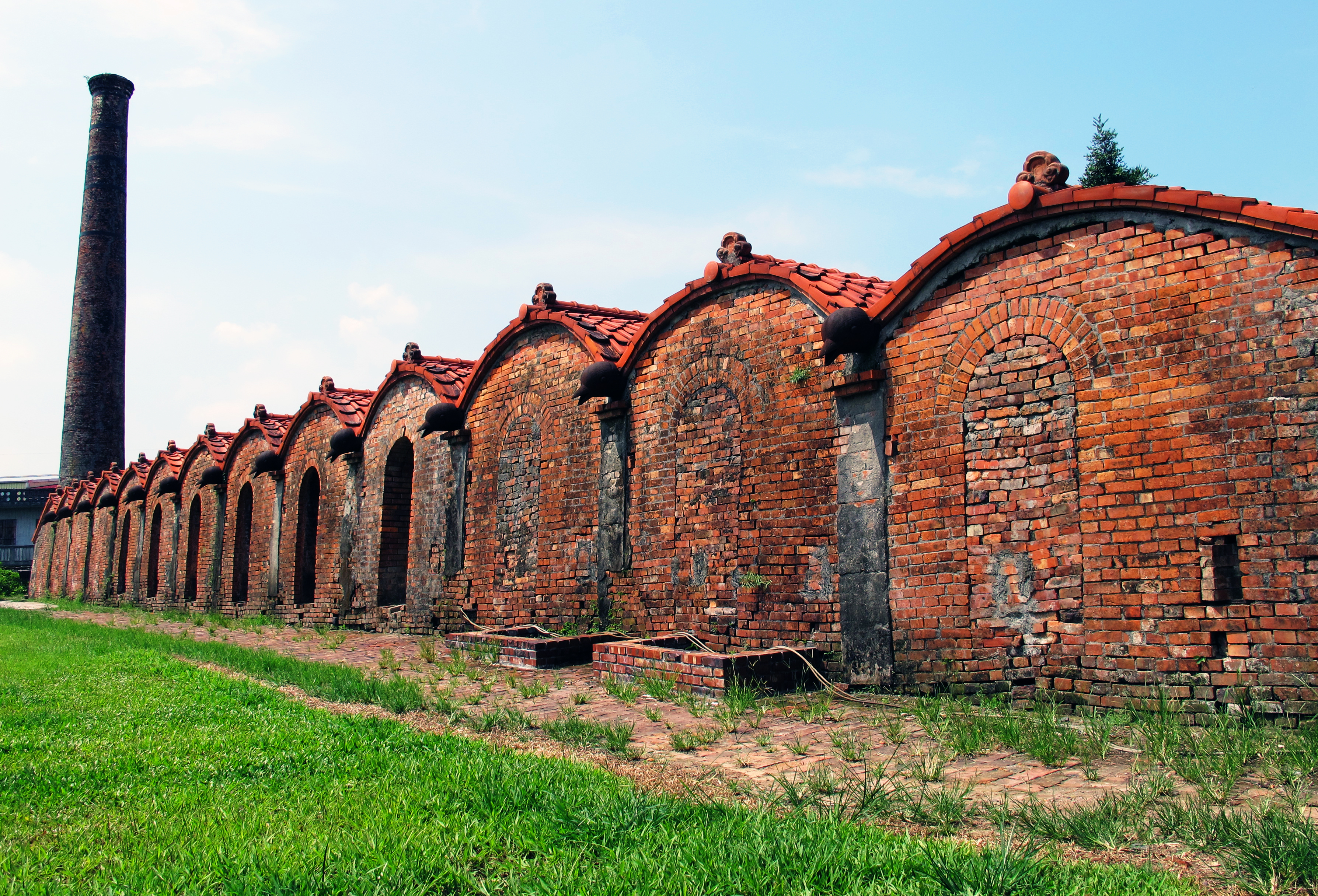 Yilan Brick Kiln.中文（台灣）: 宜蘭磚窯。